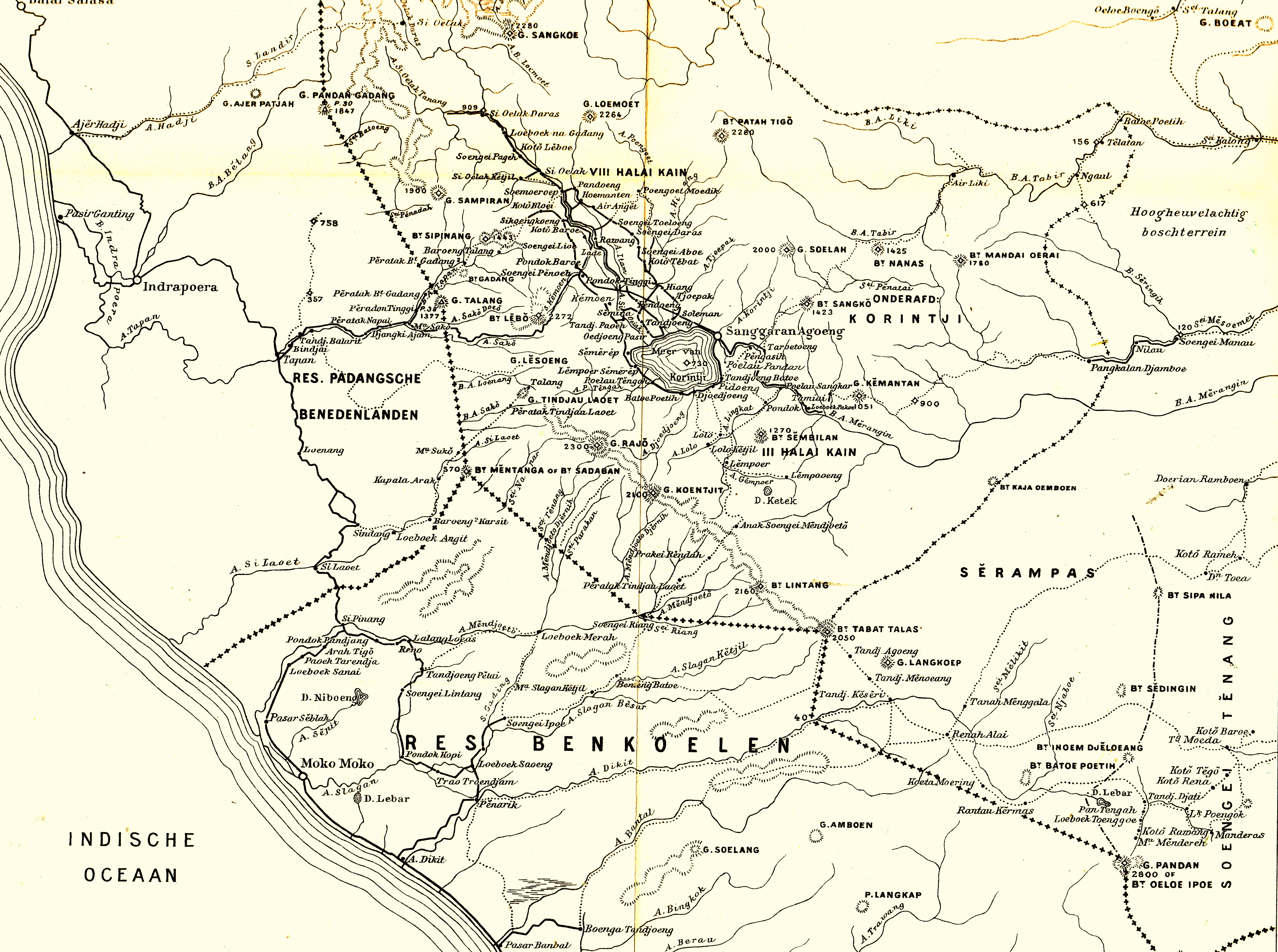 Landschap Korintji